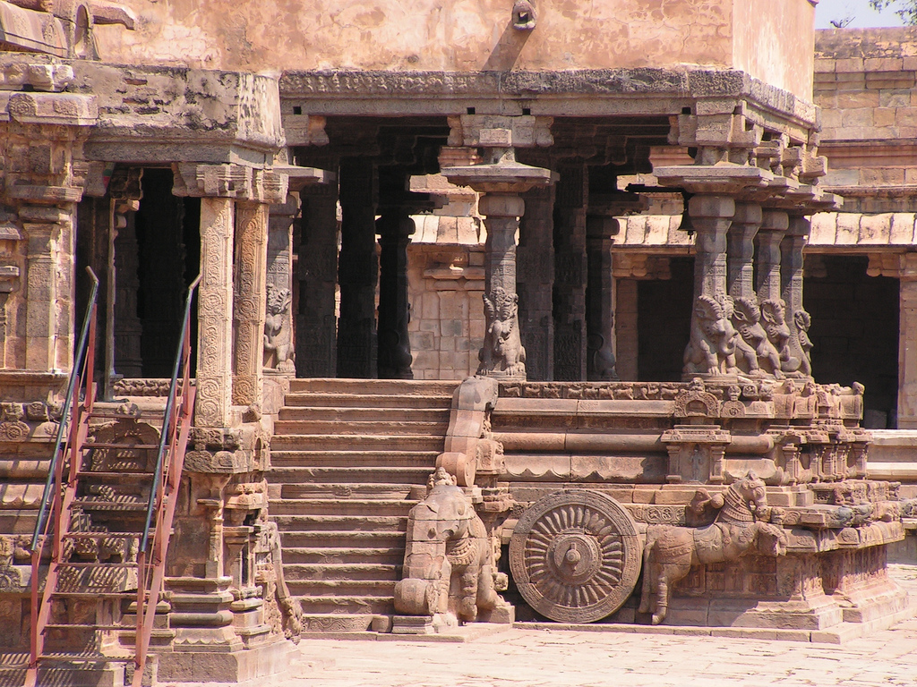 this is the main sanctum of the Airavateshwarar temple, recognized as a UNESCO World Heritage monument.